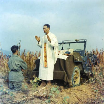 Father Emil Kapaun celebrating Mass using the hood of a Jeep as his altar, Oct 7, 1950